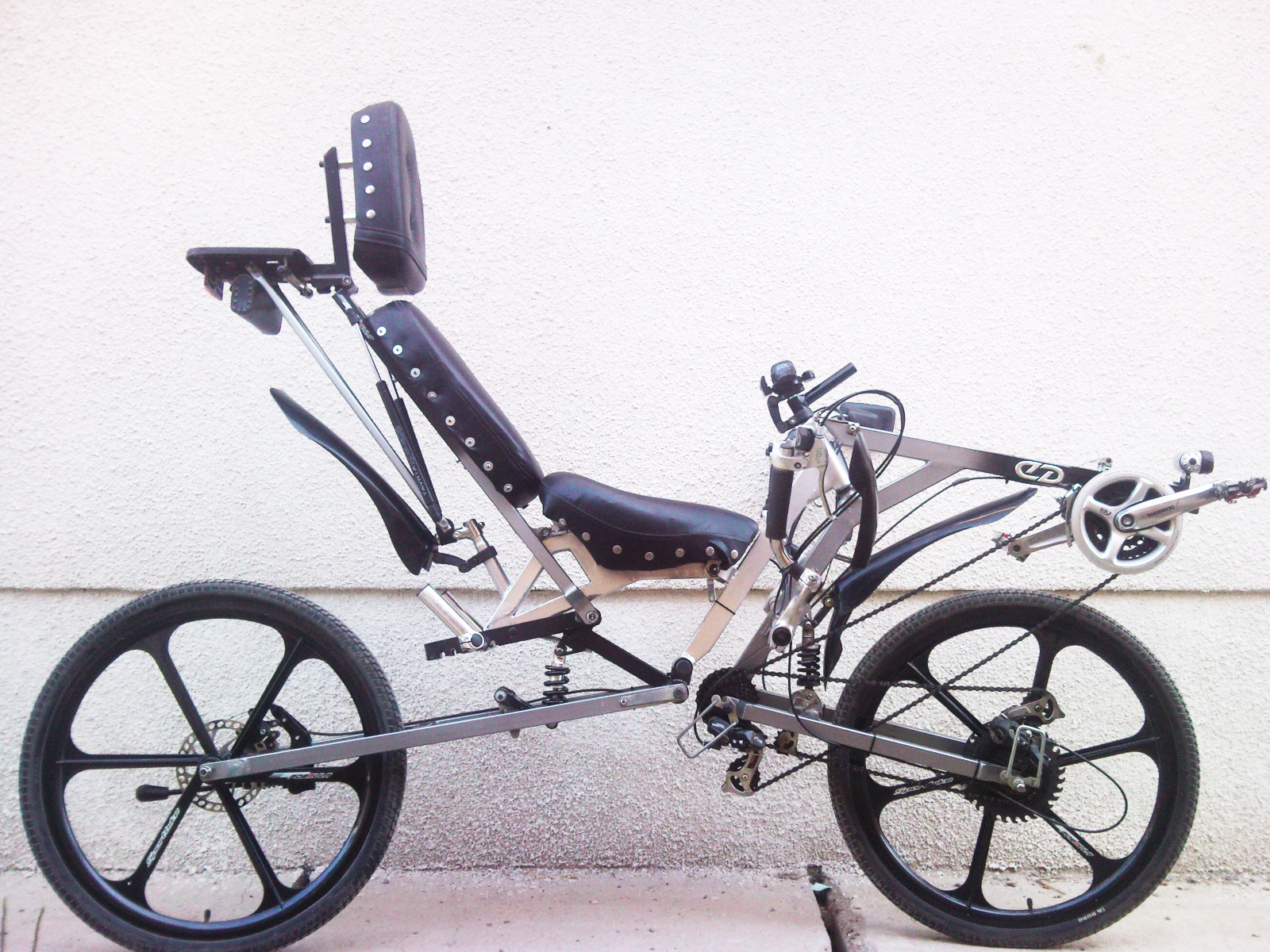 FWD (Front wheel driven) recumbent bicycle «Android» (front fork: 60°)